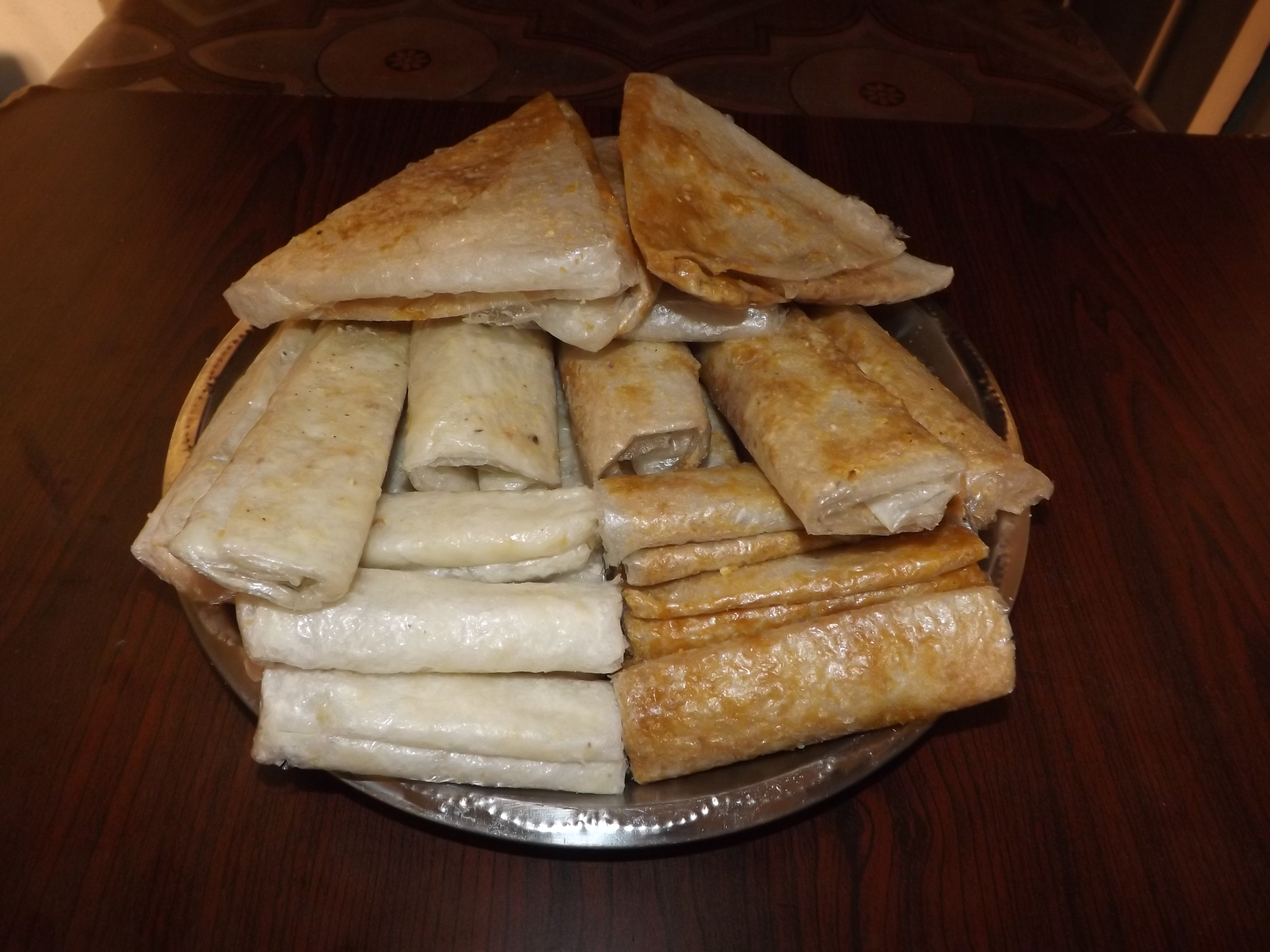 Pootharekulu or Poothareku (singular) is a popular sweet from Atreyapuram, East Godavari, India. 'Pootha' is coating and 'Reku' (plural Rekulu) is sheet in Telugu. PoothaRekulu are also known as ‘Paper sweets’ as they give the appearance of folded paper. It will made with sugar and jaggery and will apply dry fruit mix powder and ghee